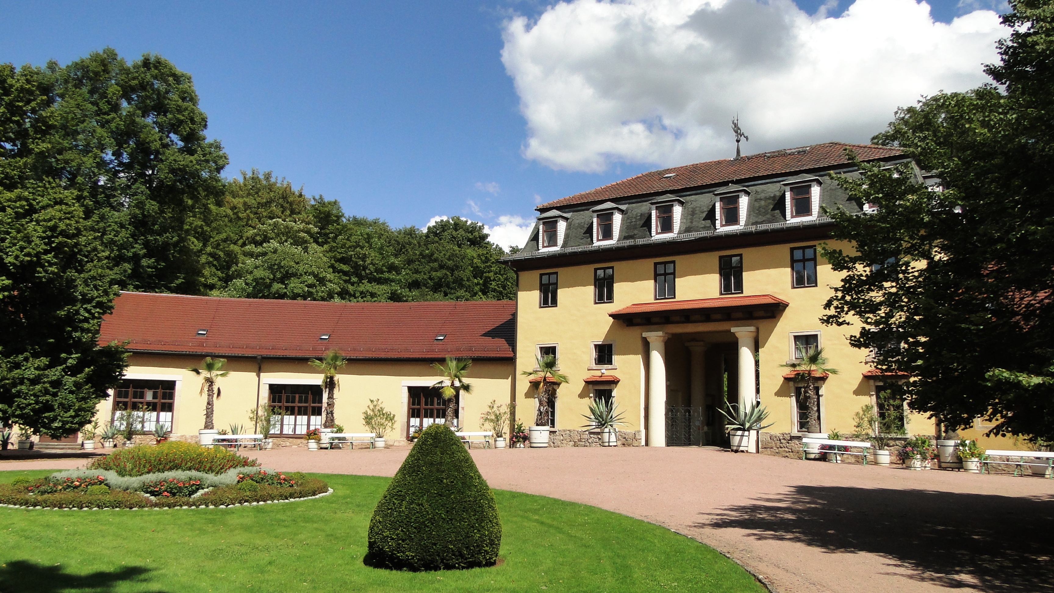 Hofmarschallsamt, seen from the garden of Schloss Altenstein